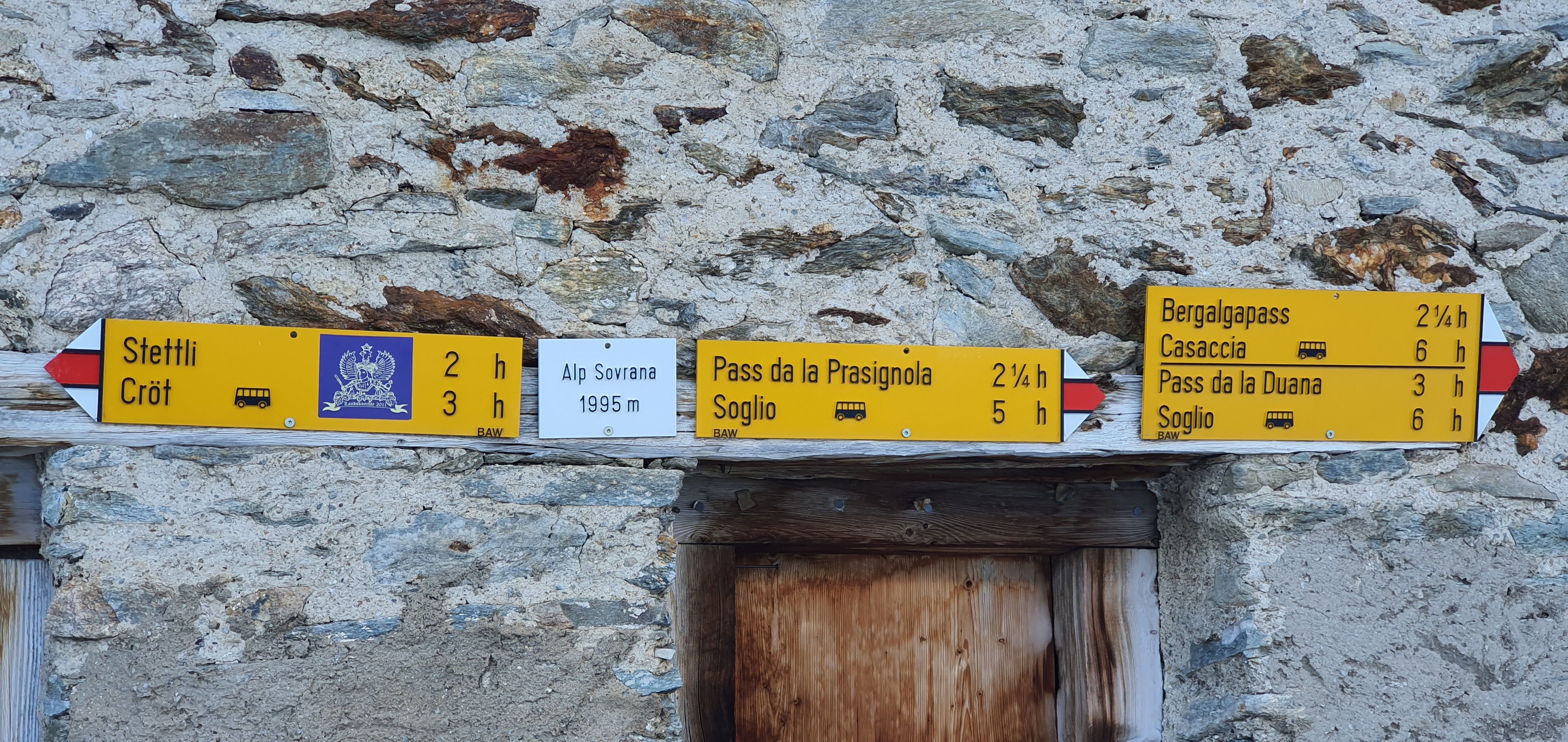 Fingerpost on Fuorcla Alp Sovrana (Souvräna, Bregaglia, Grison, Switzerland)